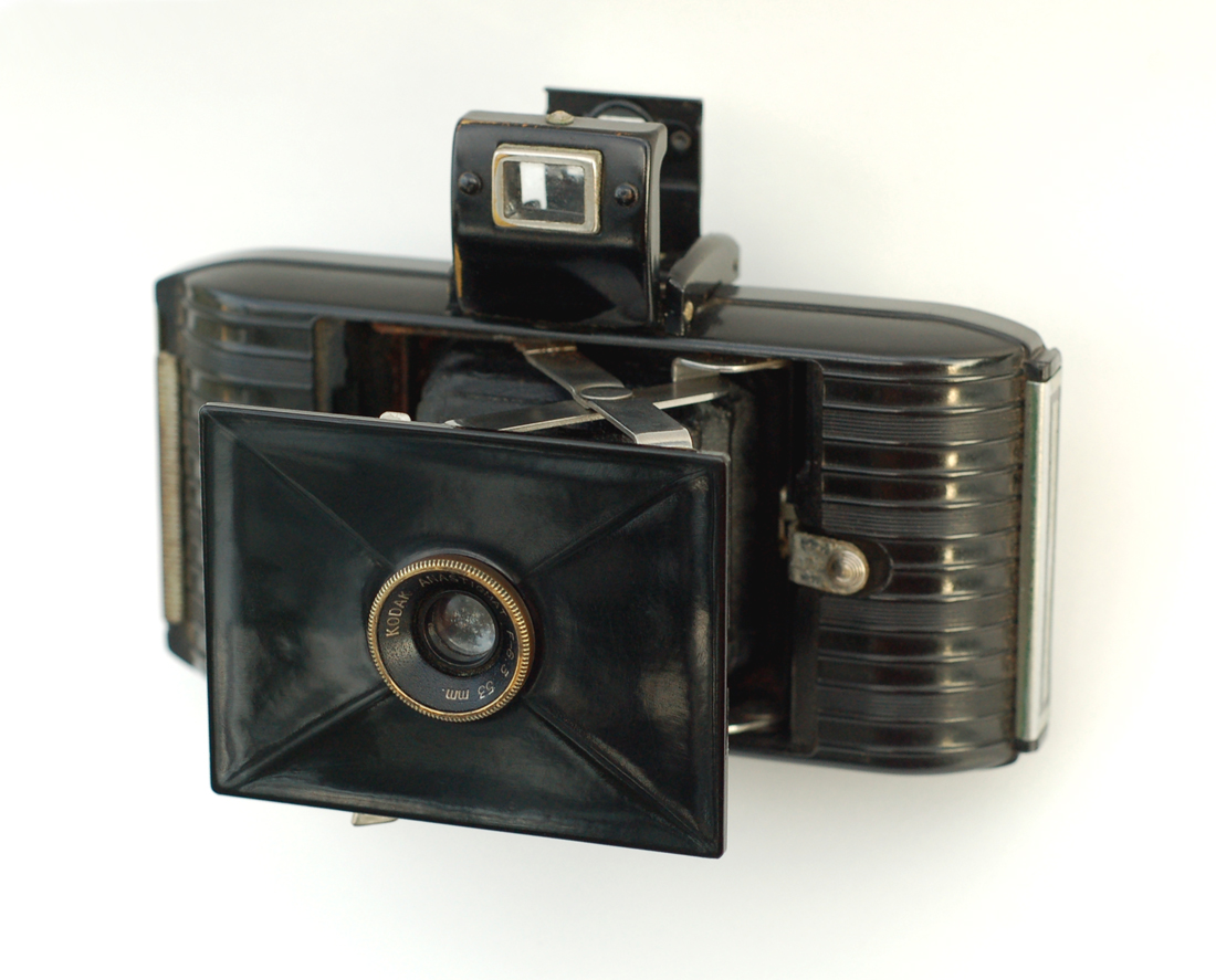 Another beautiful camera designed by Walter Dorwin Teague. This camera was made from 1938-47. A roll of 828 film still remains inside this example.